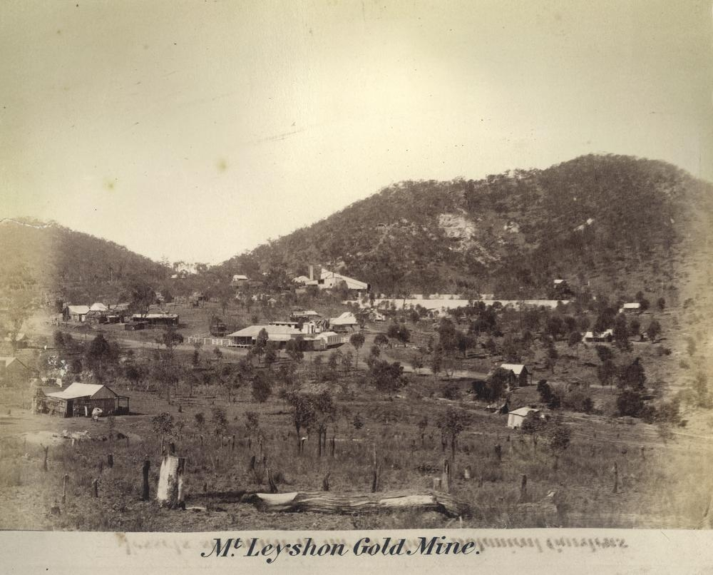 Creator: Unidentified Location: Mount Leyshon, Queensland Description: Mount Leyshon is a gold mine located in 25 km SW of Charters Towers, Queensland, Australia. View this image at the State Library of Queensland: Information about State Library of Queensland’s collection